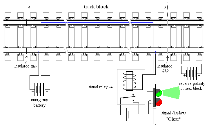 File:Clear track circuit.svg is a vector version of this file. It should be used in place of this raster image when not inferior. File:Clear track circuit.PNG File:Clear track circuit.svg For more information, see Help:SVG. Templates:Vector version available/I18n schematic of unoccupied track circuit drawn by user:Mangoe